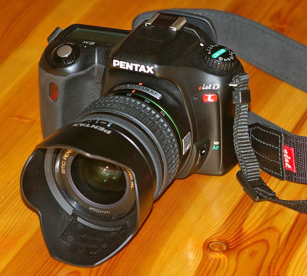 The digital reflex camera Pentax *istDL with kit zoom Pentax smc DA 18-55 mm / 3.5~5.6 AL.